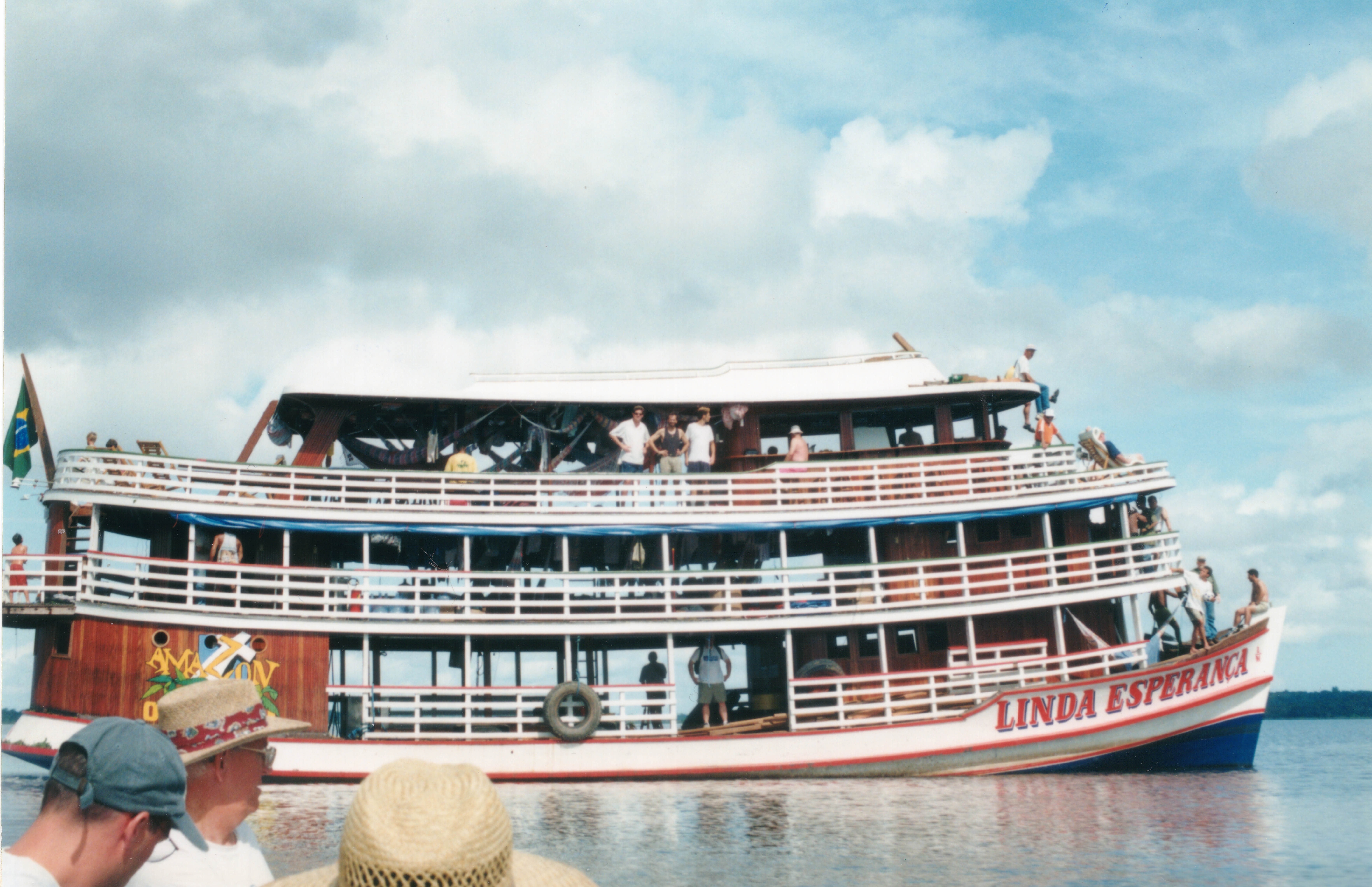 Jeffory Blackard on top of the riverboat Linda Esperanca in Brazil in the early 2000's